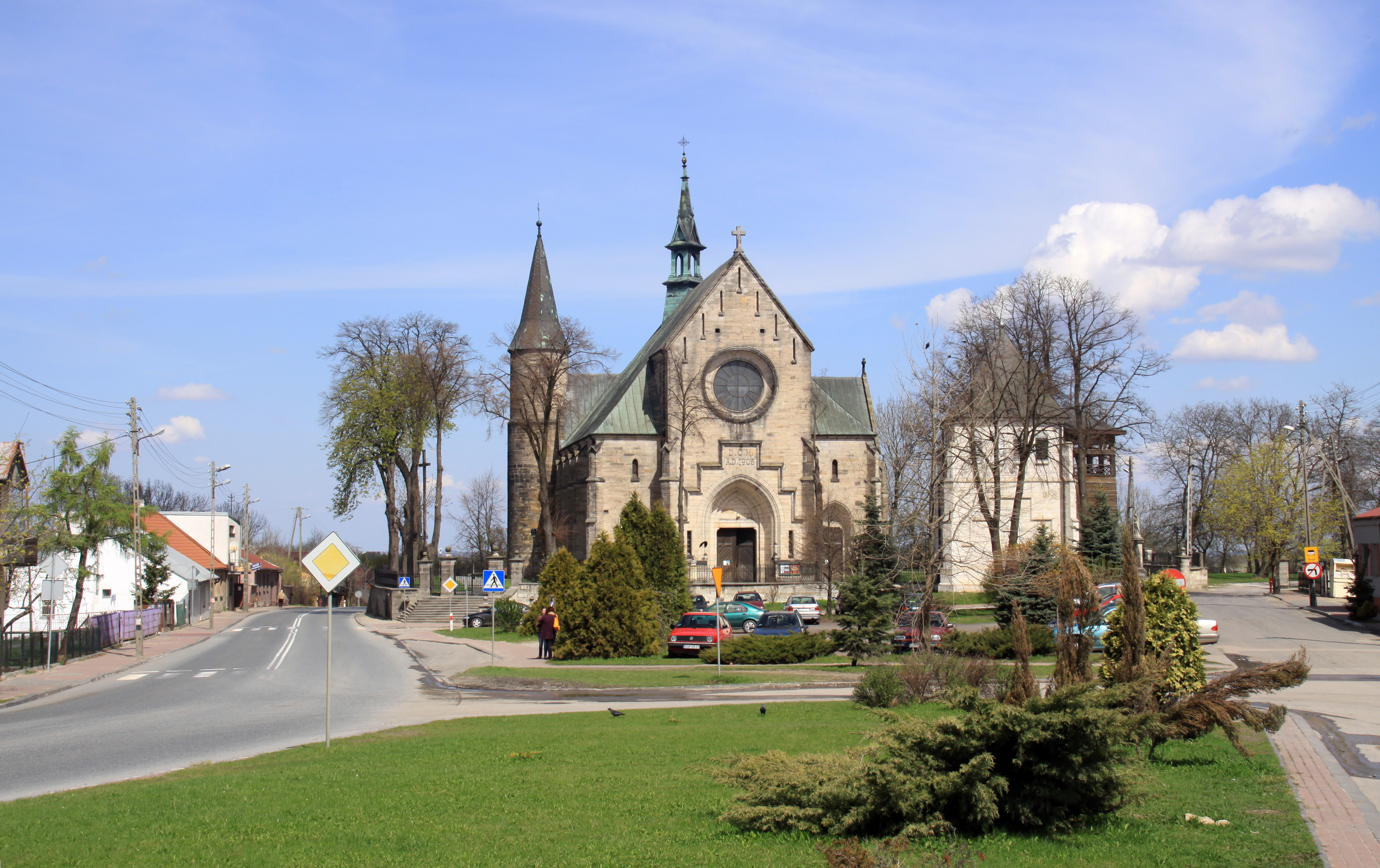 Żarnów (District opoczyński) - view of the northern frontage of the market with the Church of St. Nicholas.